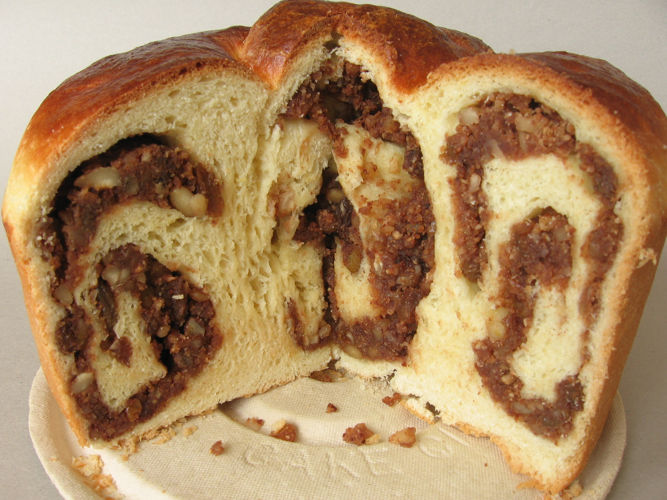 More information in the blog entry.